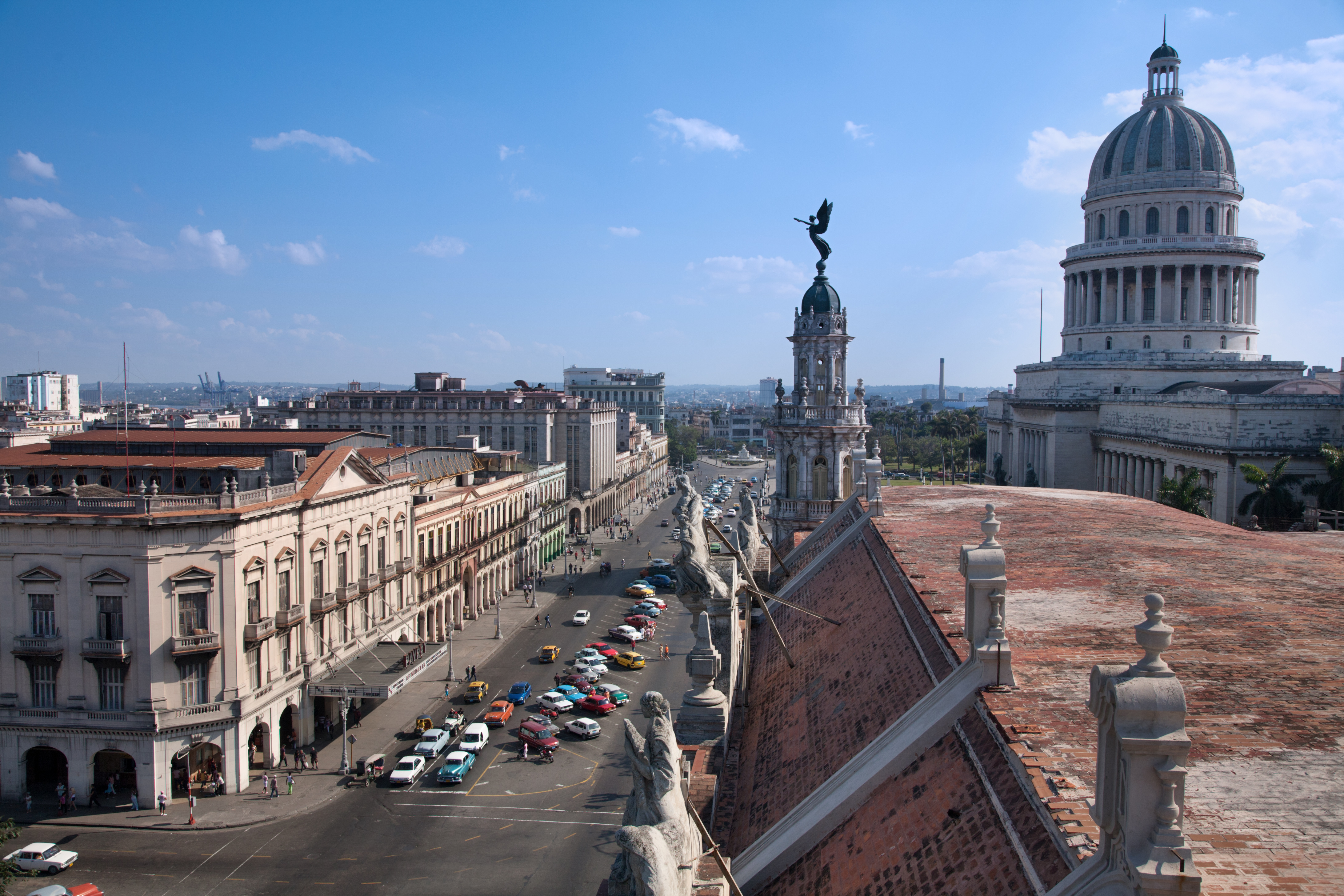 View from the roof of the Teatro Nacional de Cuba to the Teatro Payret, the Capitolio and the Paseo Marti. Havana (La Habana), Cuba